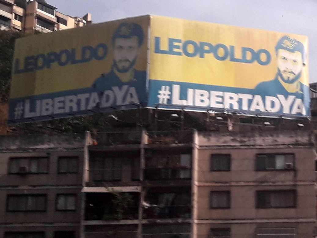 Valla de Voluntad Popular exigiendo la libertad de Leopoldo López en Caracas